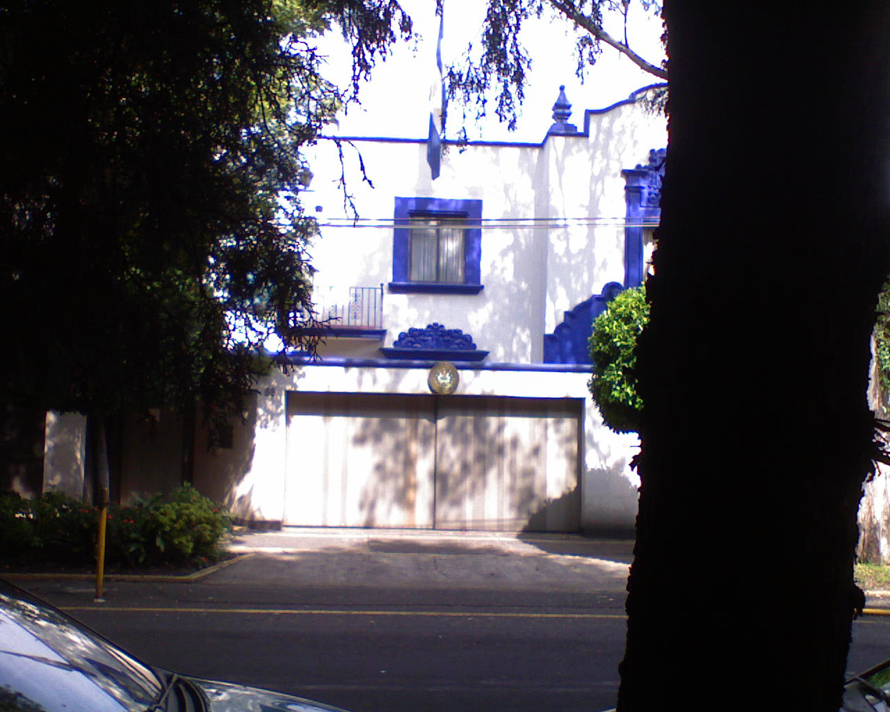 Embassy of El Salvador in Mexico City